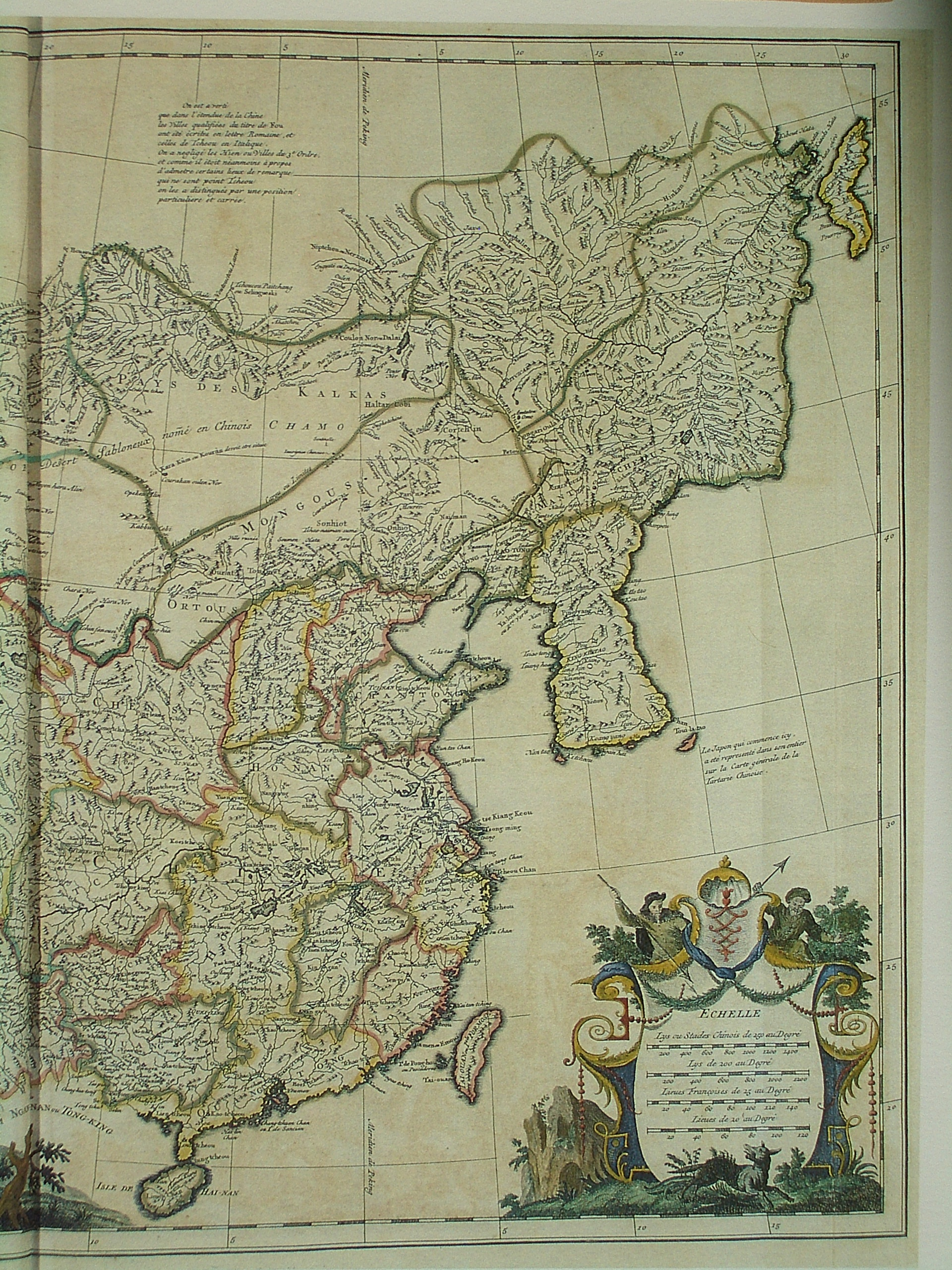 A most general map, including China, Chinese Tartary, and Tibet, based on individual maps of the Jesuit fathers. The map gives 1734 as the year, but the modern HKUST publishers say 1737